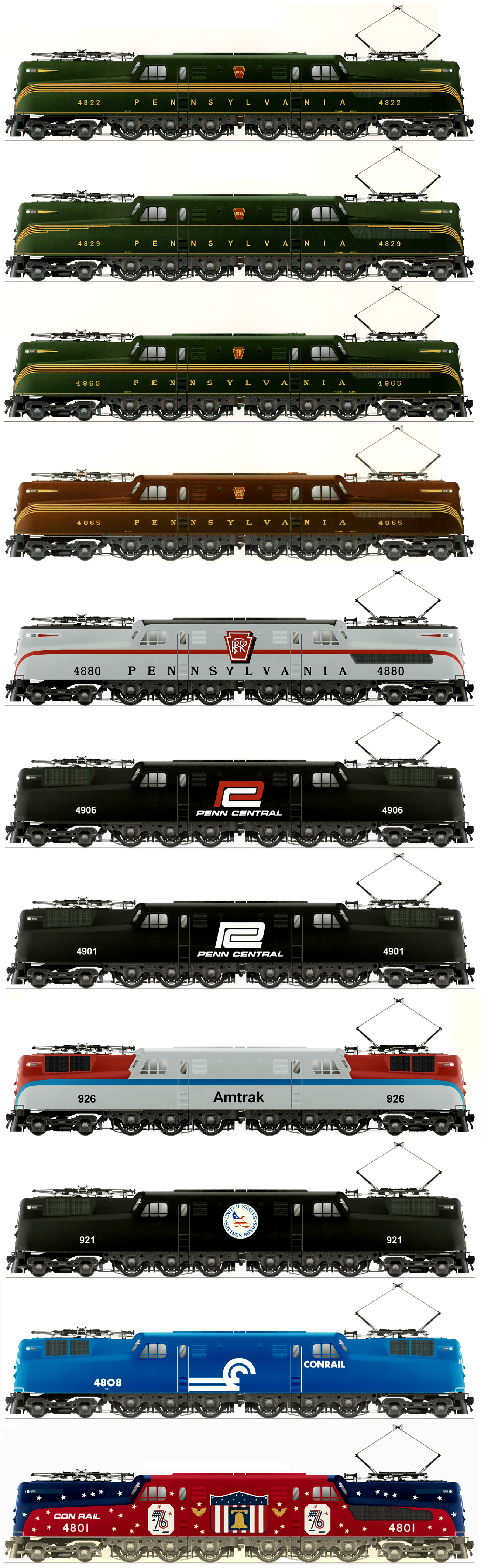 Examples of GG1 color schemes